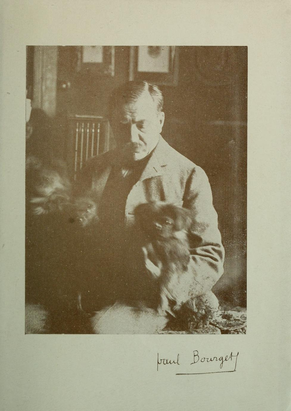 bourget